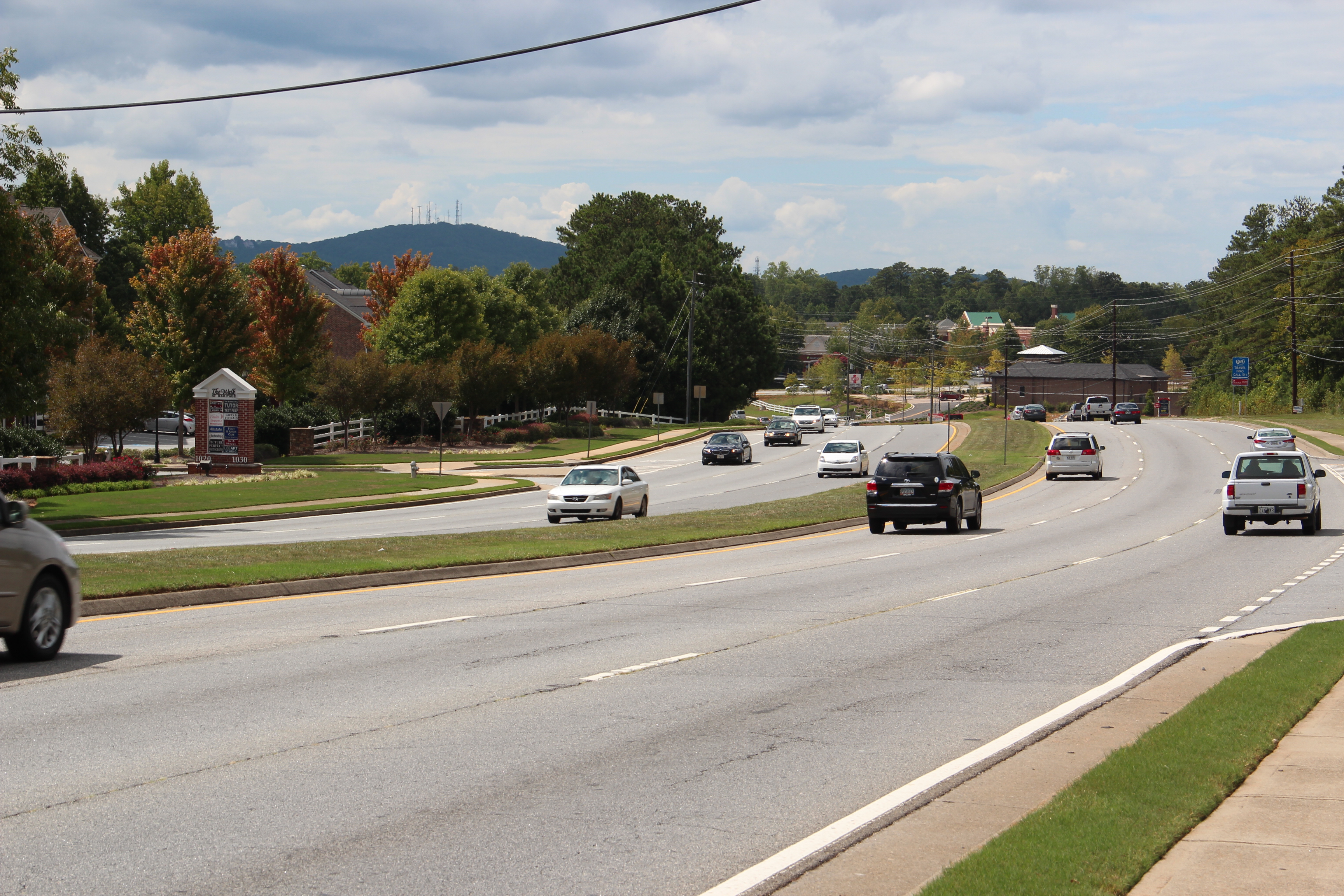 GA State Route 92 in Roswell. Sweat Mountain is in the background